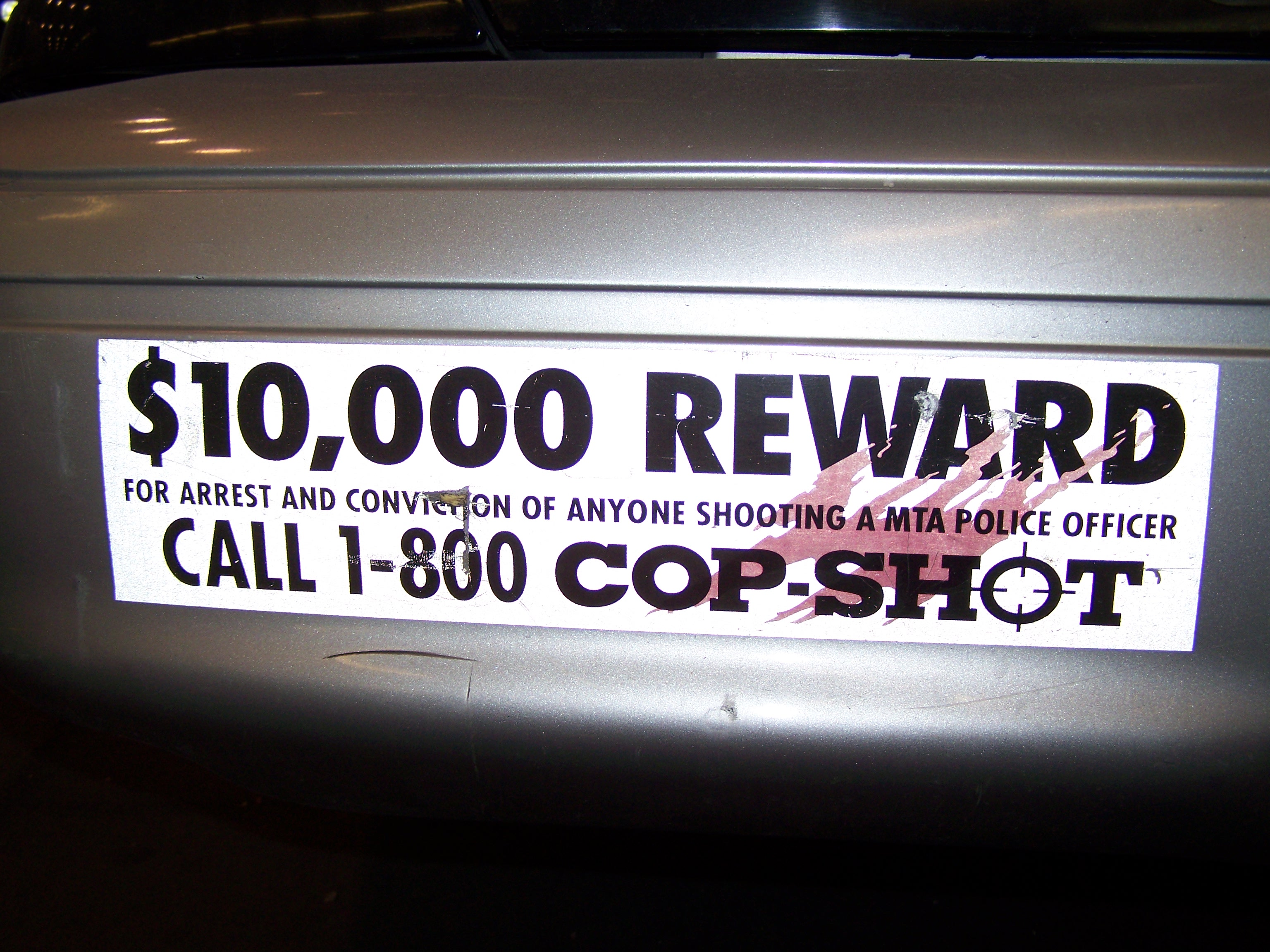 Sticker on a New York police car. Text: "$10,000 REWARD / FOR ARREST AND CONVICTION OF ANYONE SHOOTING A MTA POLICE OFFICER / CALL 1-800 COP-SHOT"